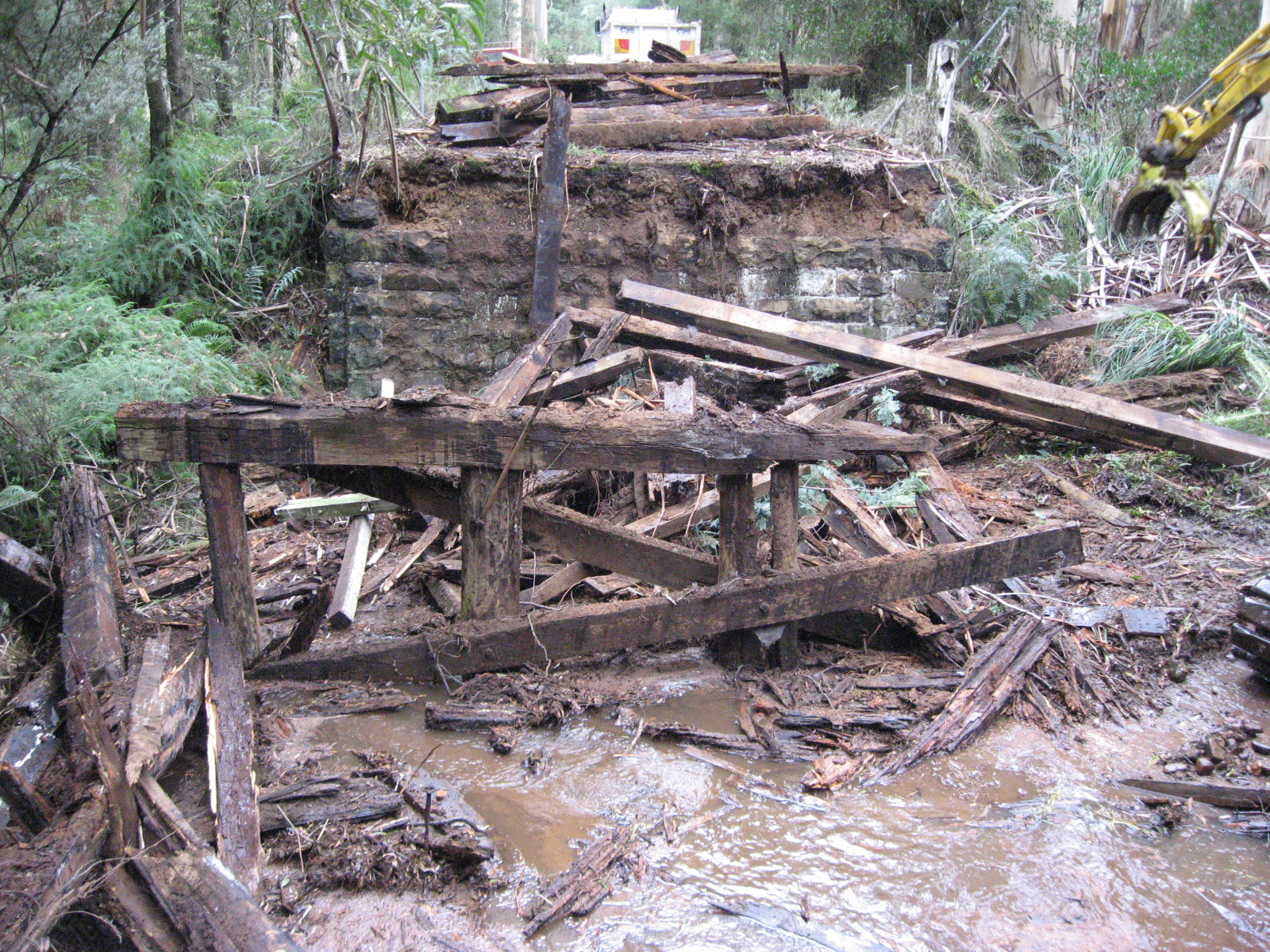 Wilks Creek Bridge Marysville, during demolition of decaued timber in 2008.